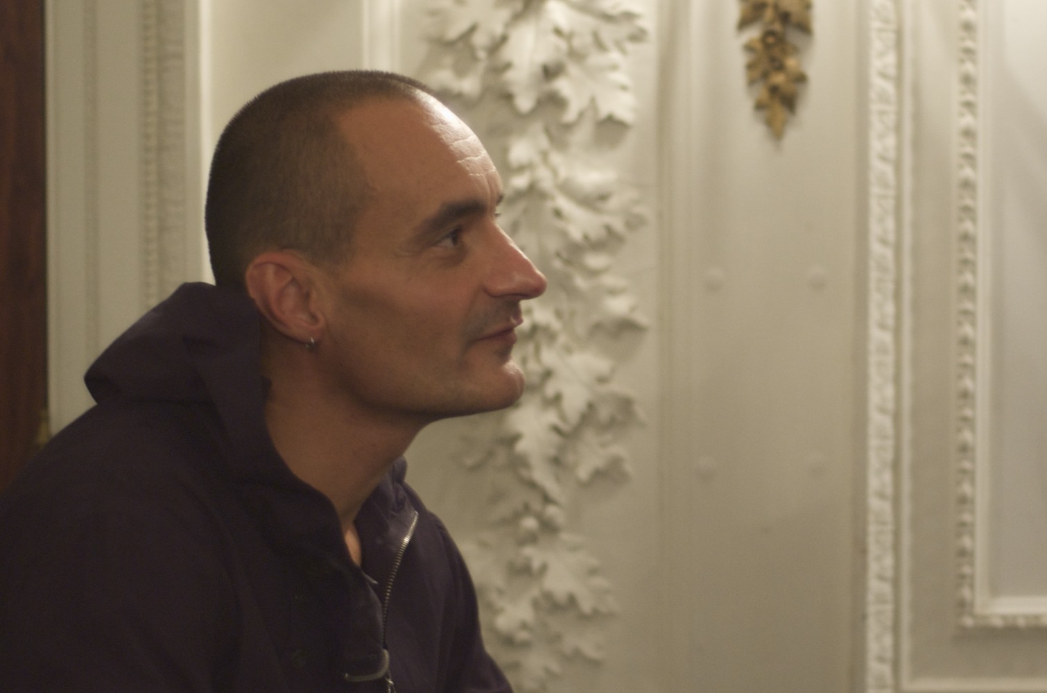 German artist Thomas Köner after his performance at the Goethe-Institut Boston, October 22, 2010 (Photo: Susanna Bolle).